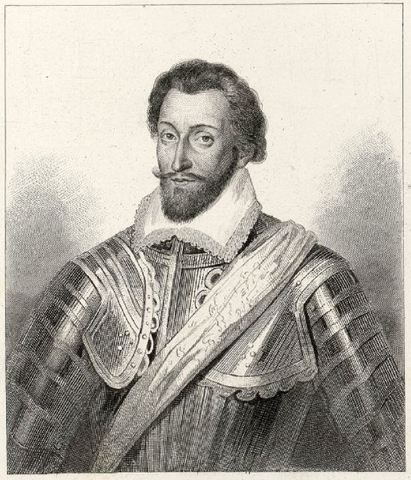 Portrait of André de Brancas (d. 1595), Admiral of France